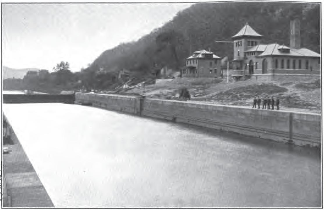 View of the Merrill Lock No. 6 on the Ohio River in 1904. Located in what is now the borough of Industry in Beaver County, Pennsylvania, United States, the lock and its associated dam and buildings were completed in 1906 and superseded in 1936. The Romanesque powerhouse (the larger of the two buildings) remains today, currently serving as the location of a restaurant; it is listed on the National Register of Historic Places.